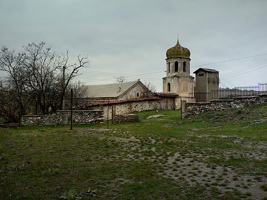 The church "Saint Nikolay" in Golema Rakovitsa village, Bulgaria